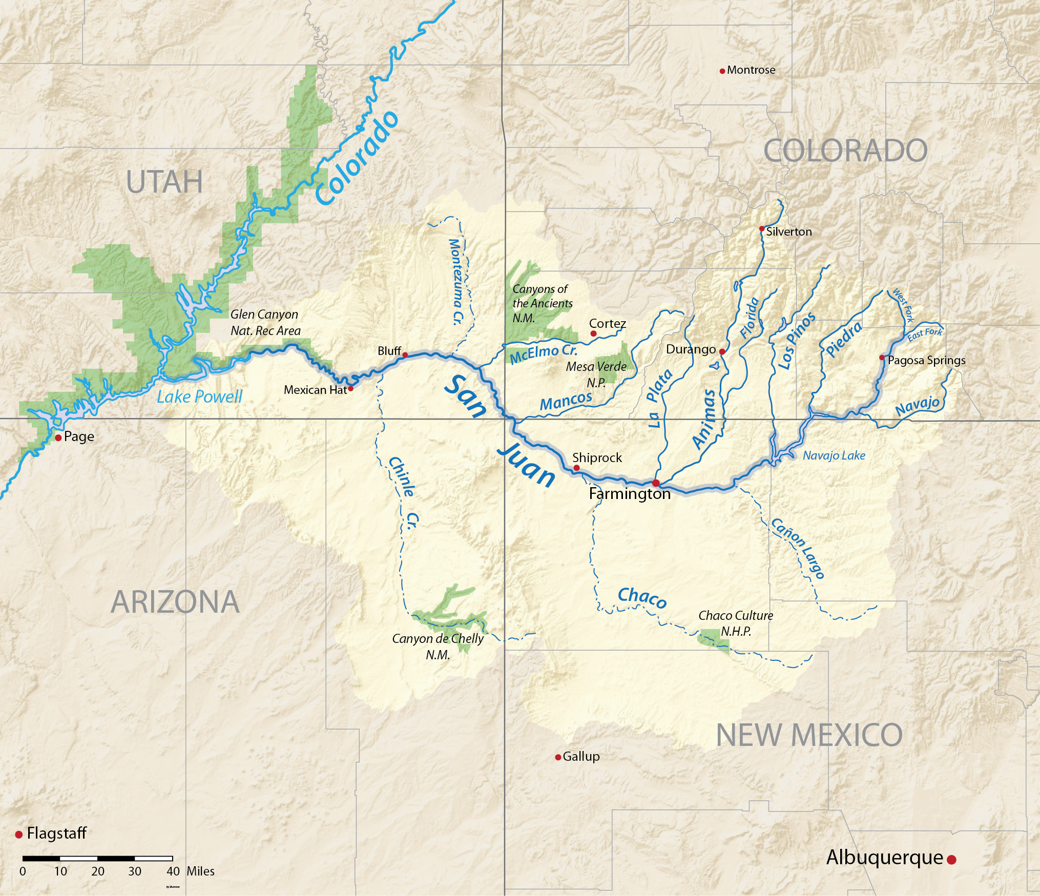 Map of the San Juan River, a tributary of the Colorado River, in Arizona, Colorado, New Mexico and Utah, USA. Made using USGS National Map data.